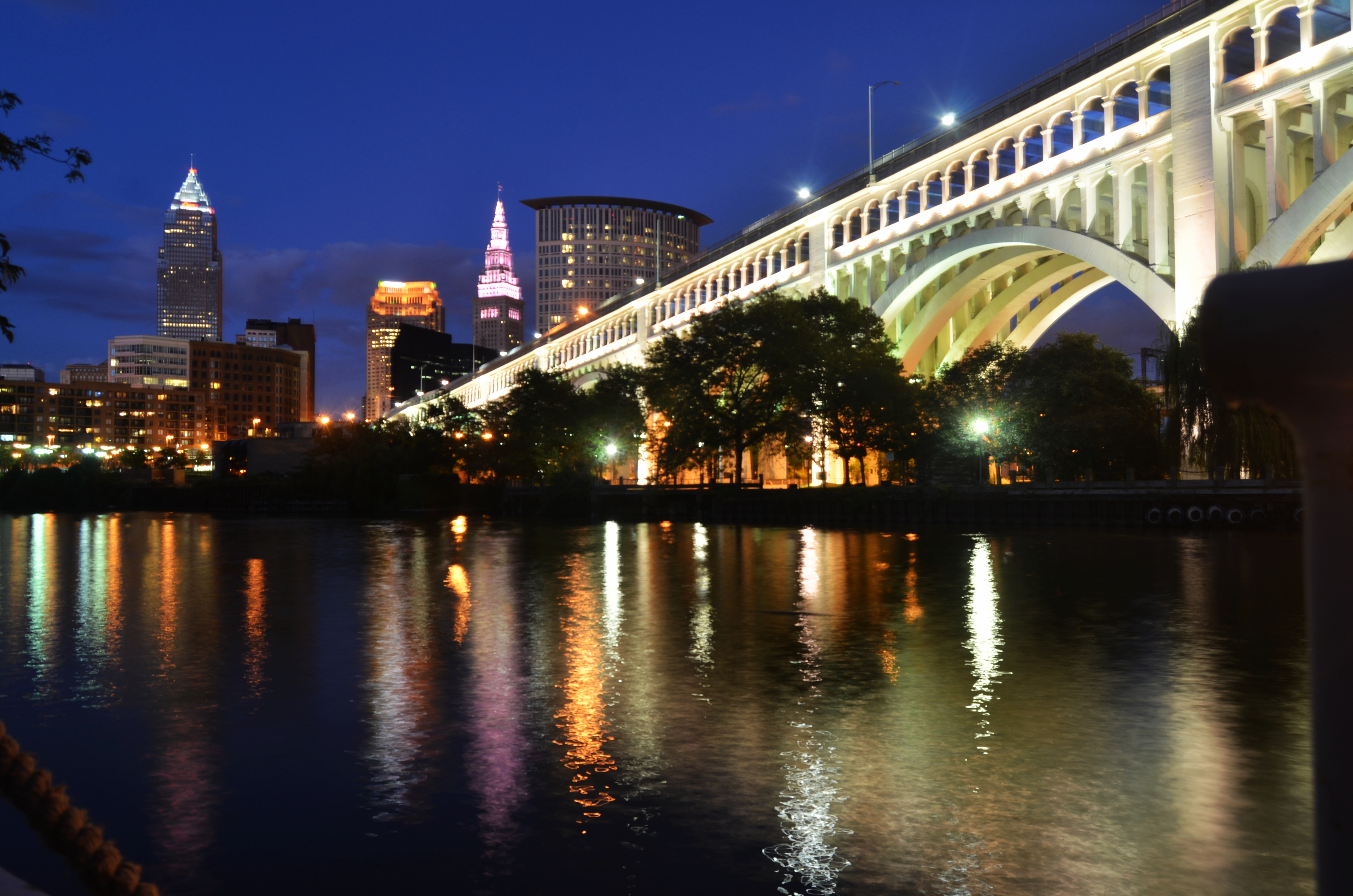 View of downtown Cleveland and the Detroit-Superior Bridge